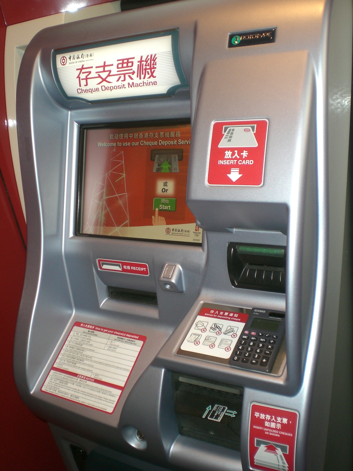 中銀香港zh:支票zh:自動櫃員機